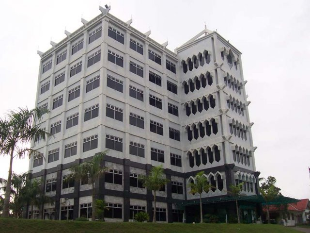 Unimal